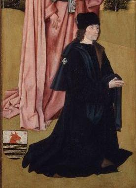 Pieter van Os.